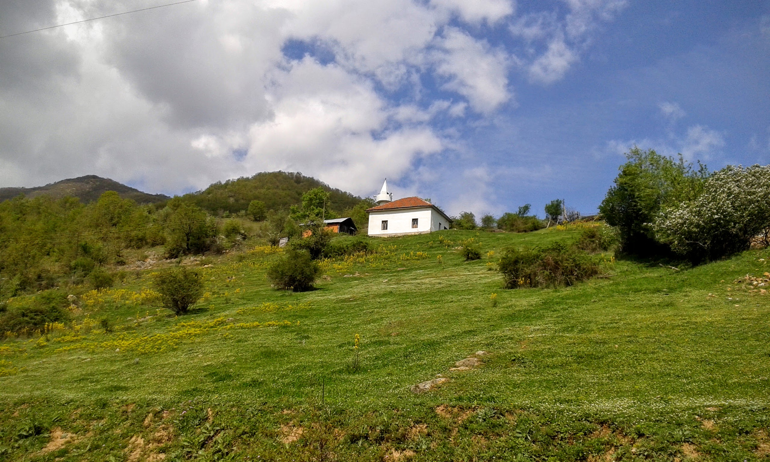 View of the village Tisovica, Macedonia